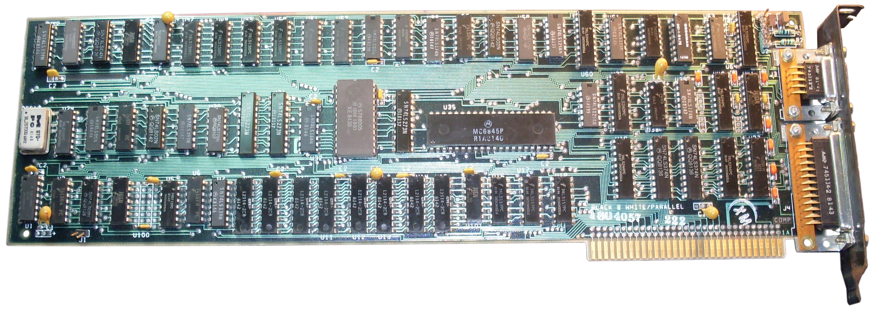 Original Monochrome Display and Parallel Printer Adapter found on the IBM PC (IBM 5150)